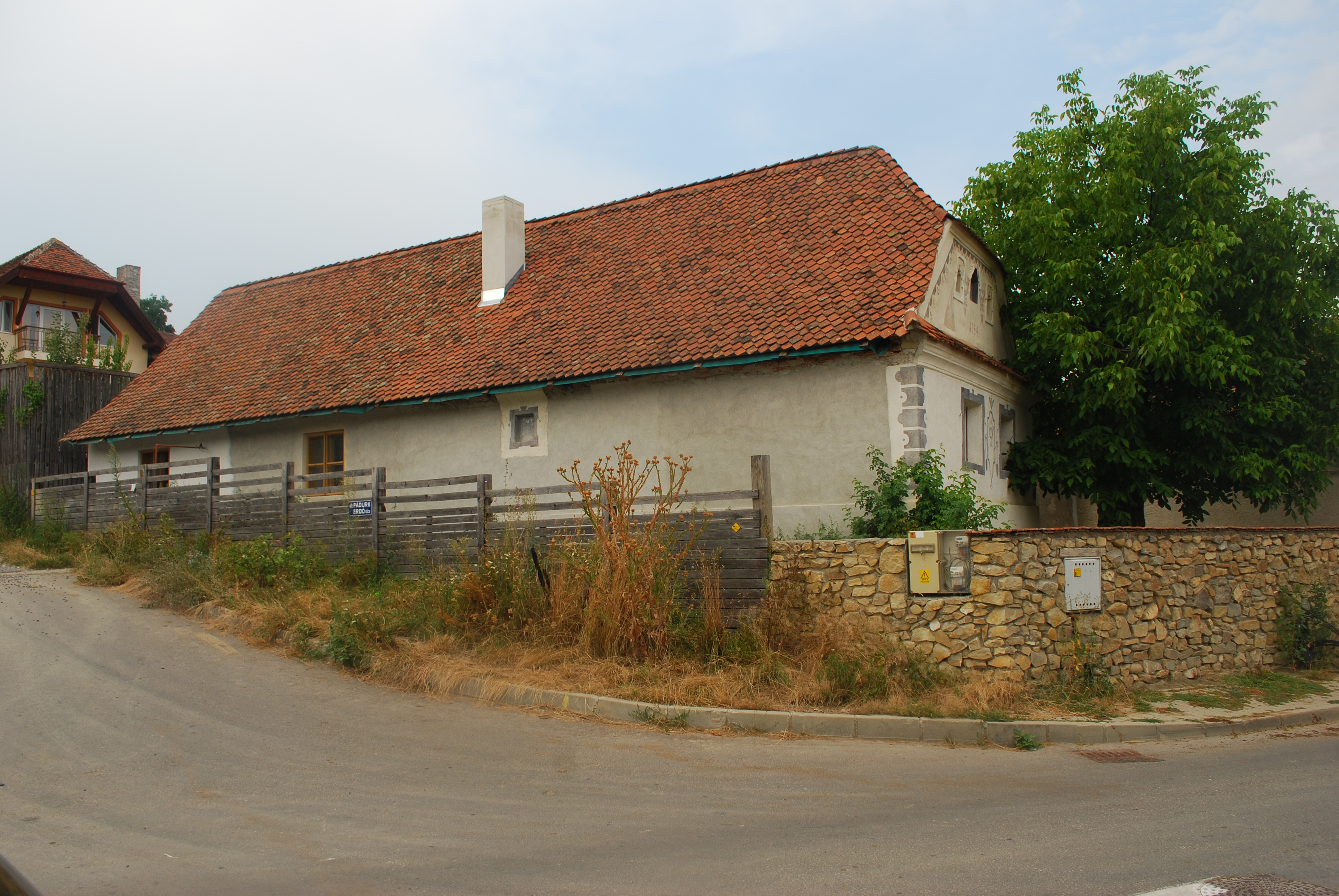 Sereséj mansion in Sfântu Gheorghe, Covasna County, Romania